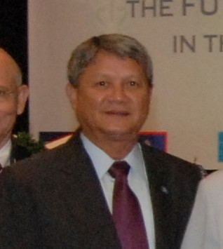 Palau Vice President Elias Chin